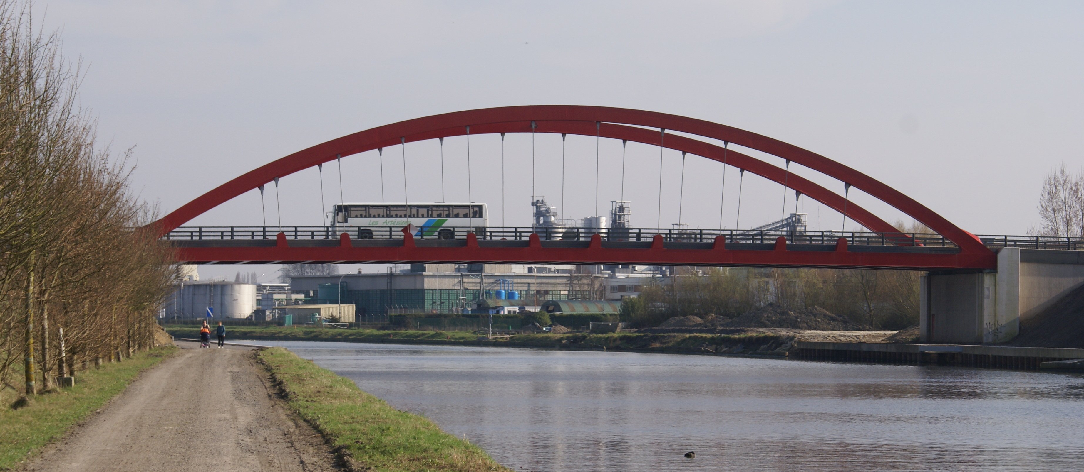 Bridge over the Canal Dunkerque-Escaut between Essars and Béthune